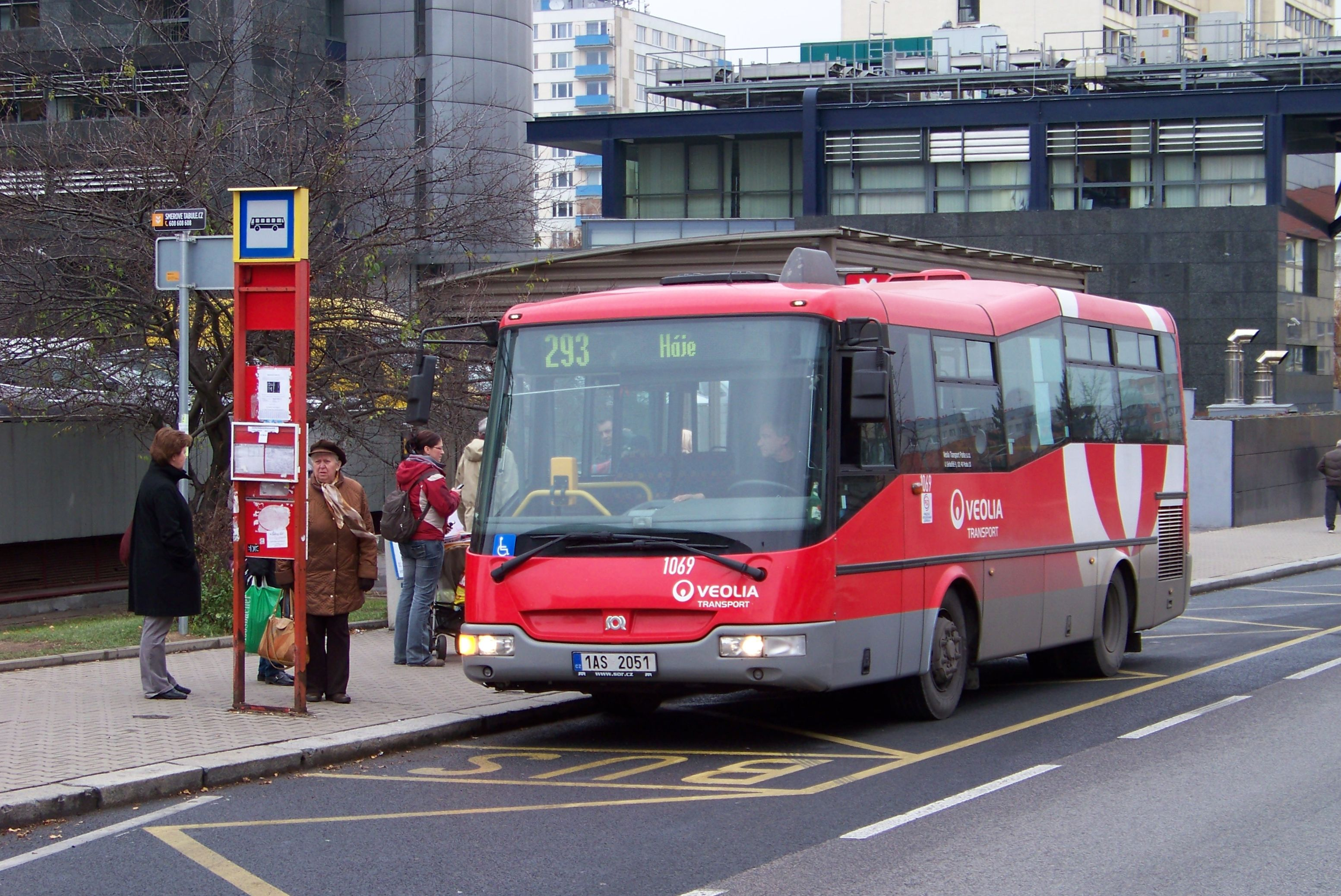 Prague-Krč, the Czech Republic. Antala Staška street, SOR CN 8,5 of Veolia Transport Praha.